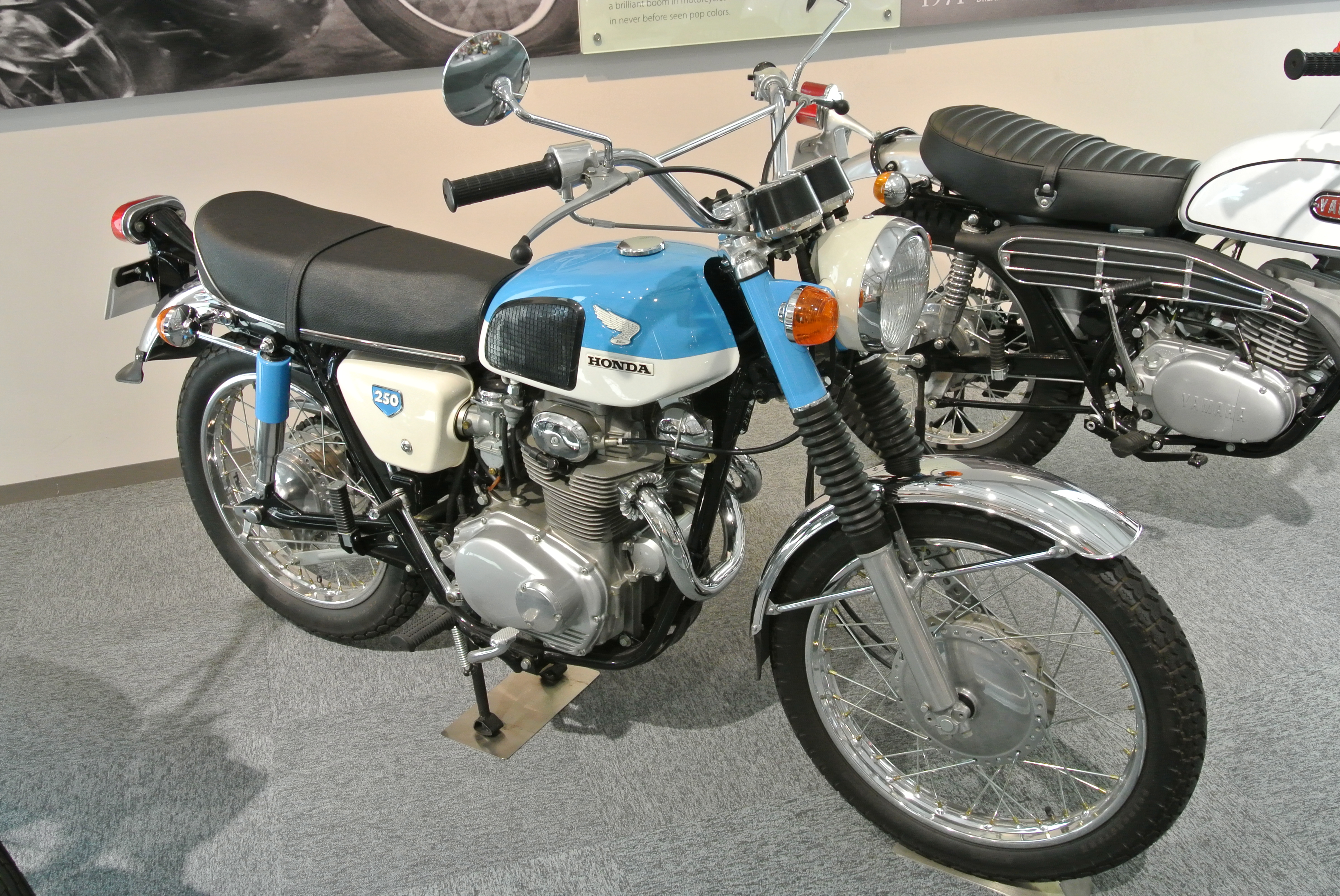 Honda Dream CL250 in the Honda Collection Hall.